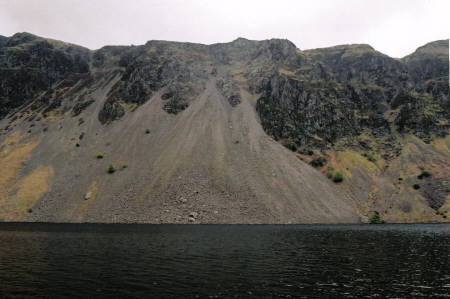 I am the author of this photograph and confirm I have exclusive rights to release it into the public domain. I hereby make it available in the public domain.